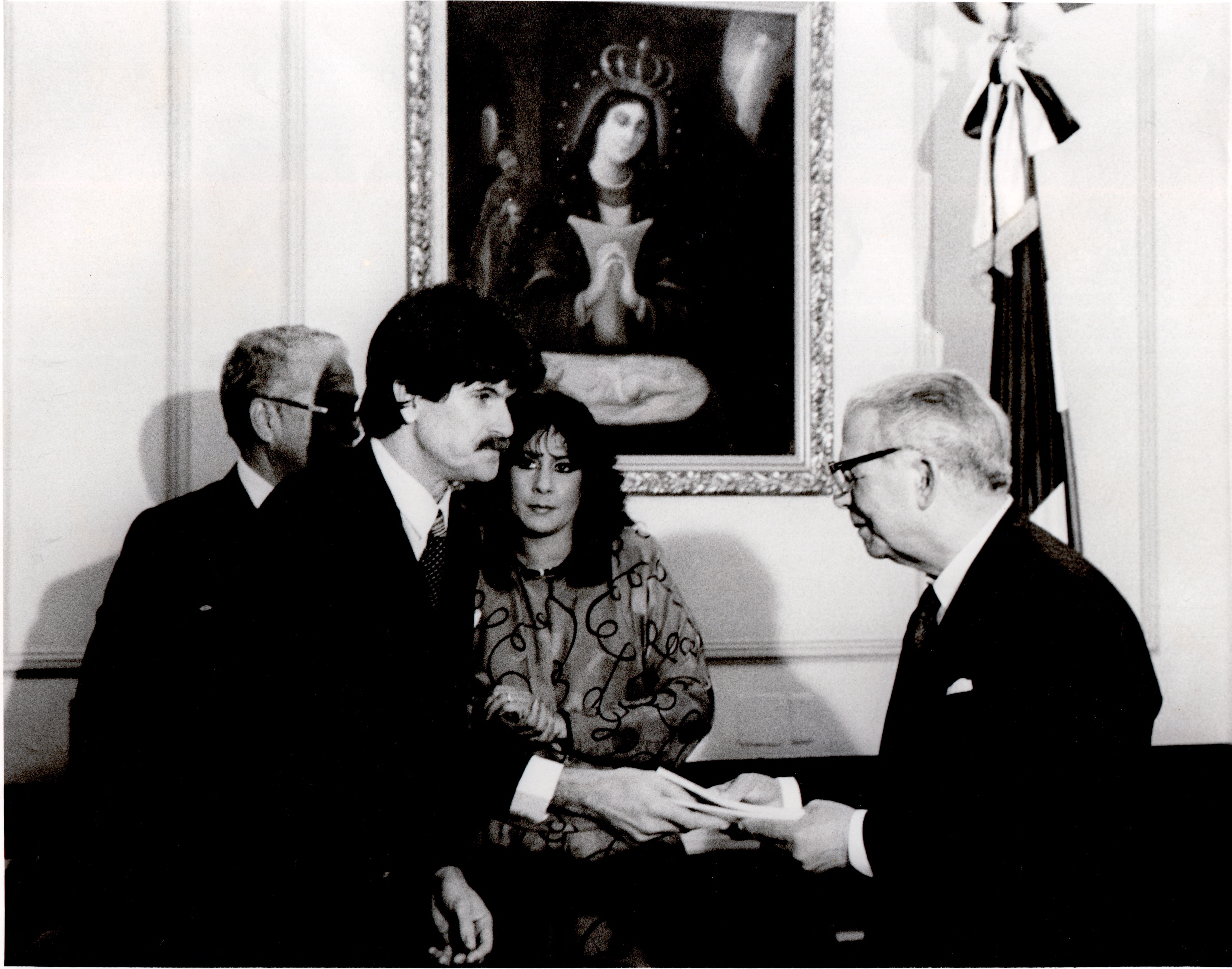 Oscar Luis Valdez Mena sworns in as a member of the Dominican mission at the United Nations. President Joaquin Balaguer leads the ceremony. 1989.